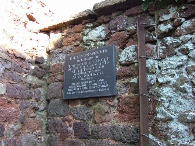 Memorial tablet to the Bideford Witches. The tablet commemorates the three women hanged in Exeter in 1682, and also Alice Molland, who may not have been executed. See Bideford_witch_trial . The tablet is on a wall at 333534.